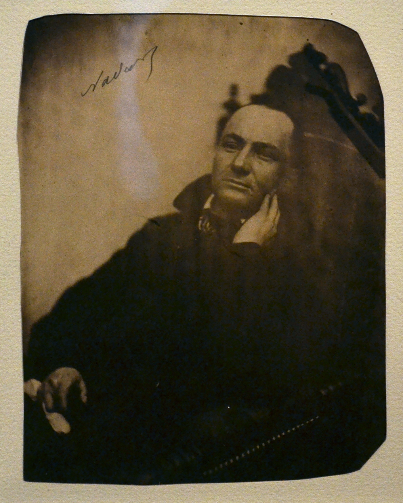 Portrait of Charles Baudelaire by Nadar